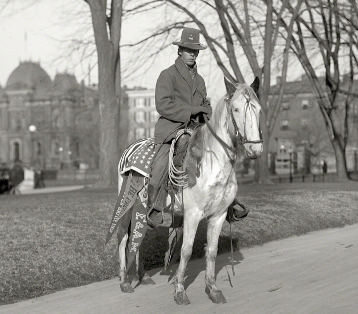 Red Fox James at White House Other information No.